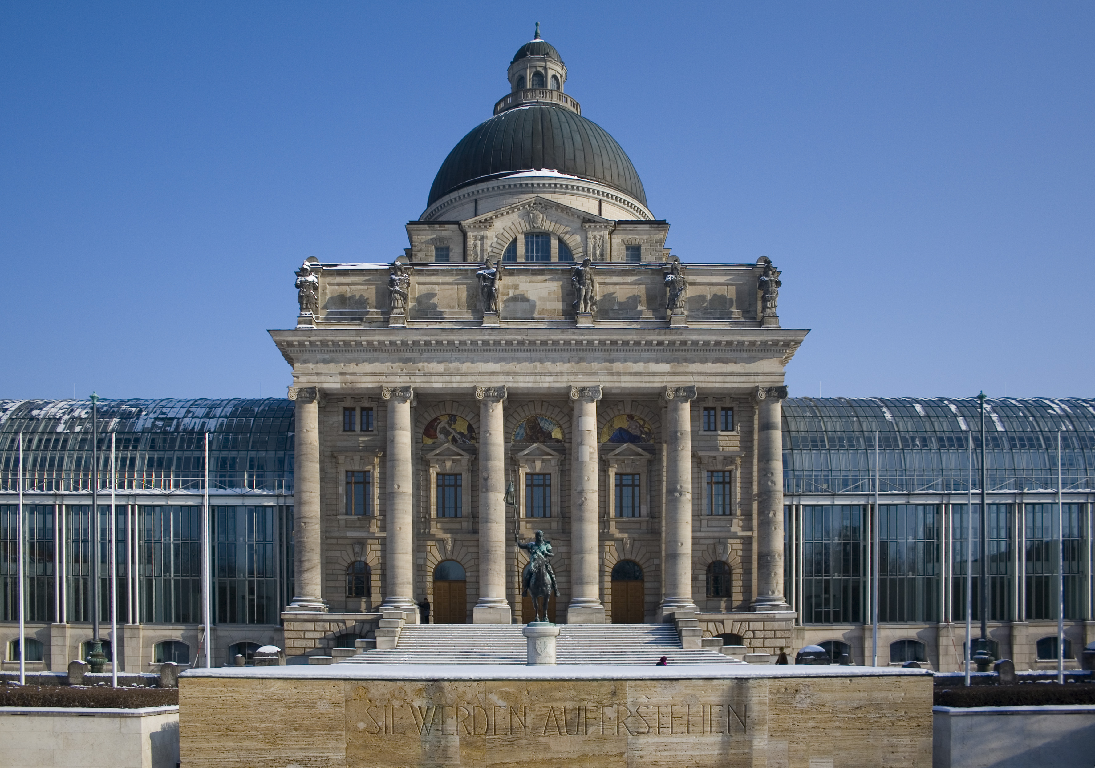 Bavaria State Office, Munich, Germany